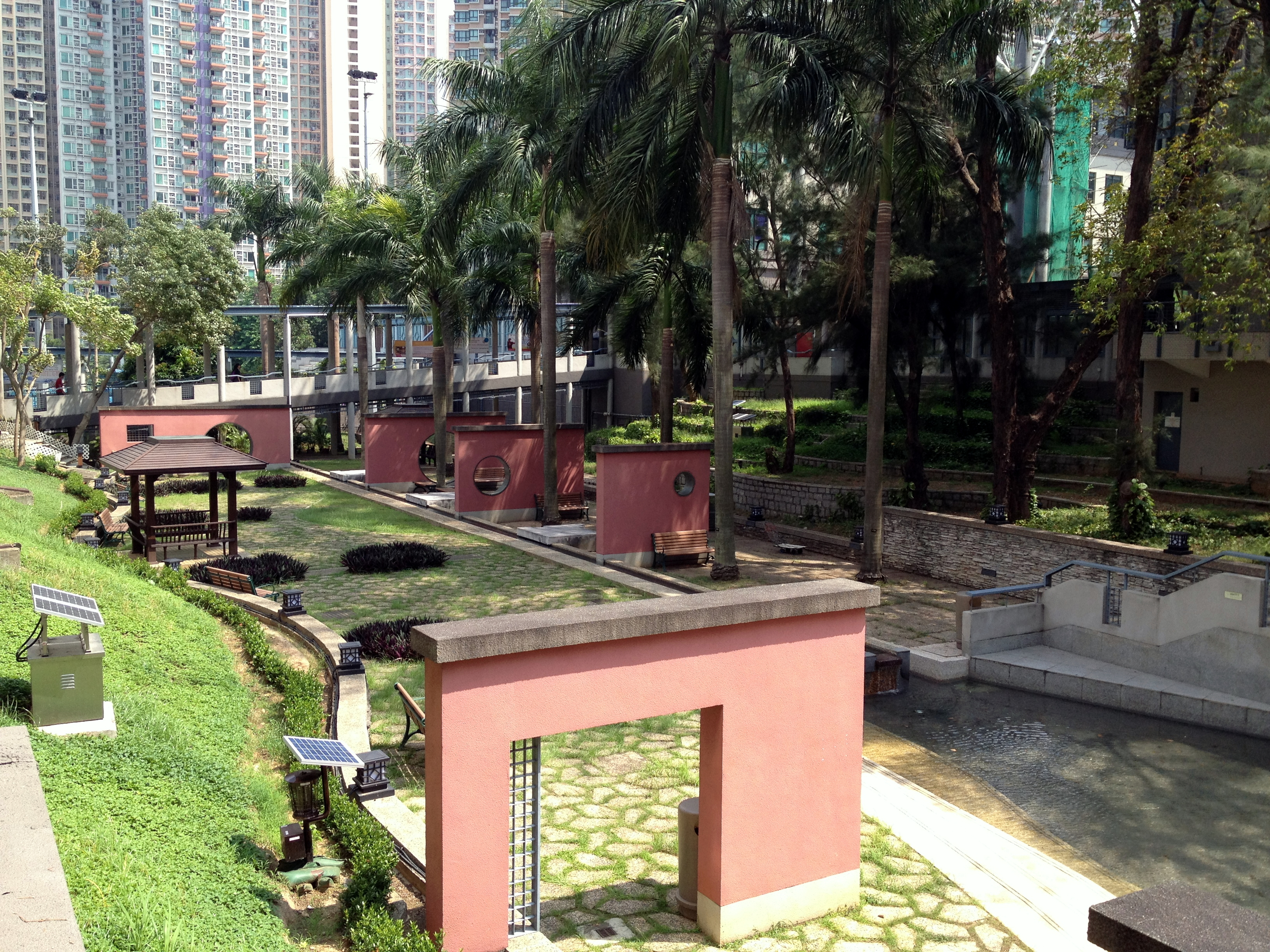 Lingnan University Contemporary Garden